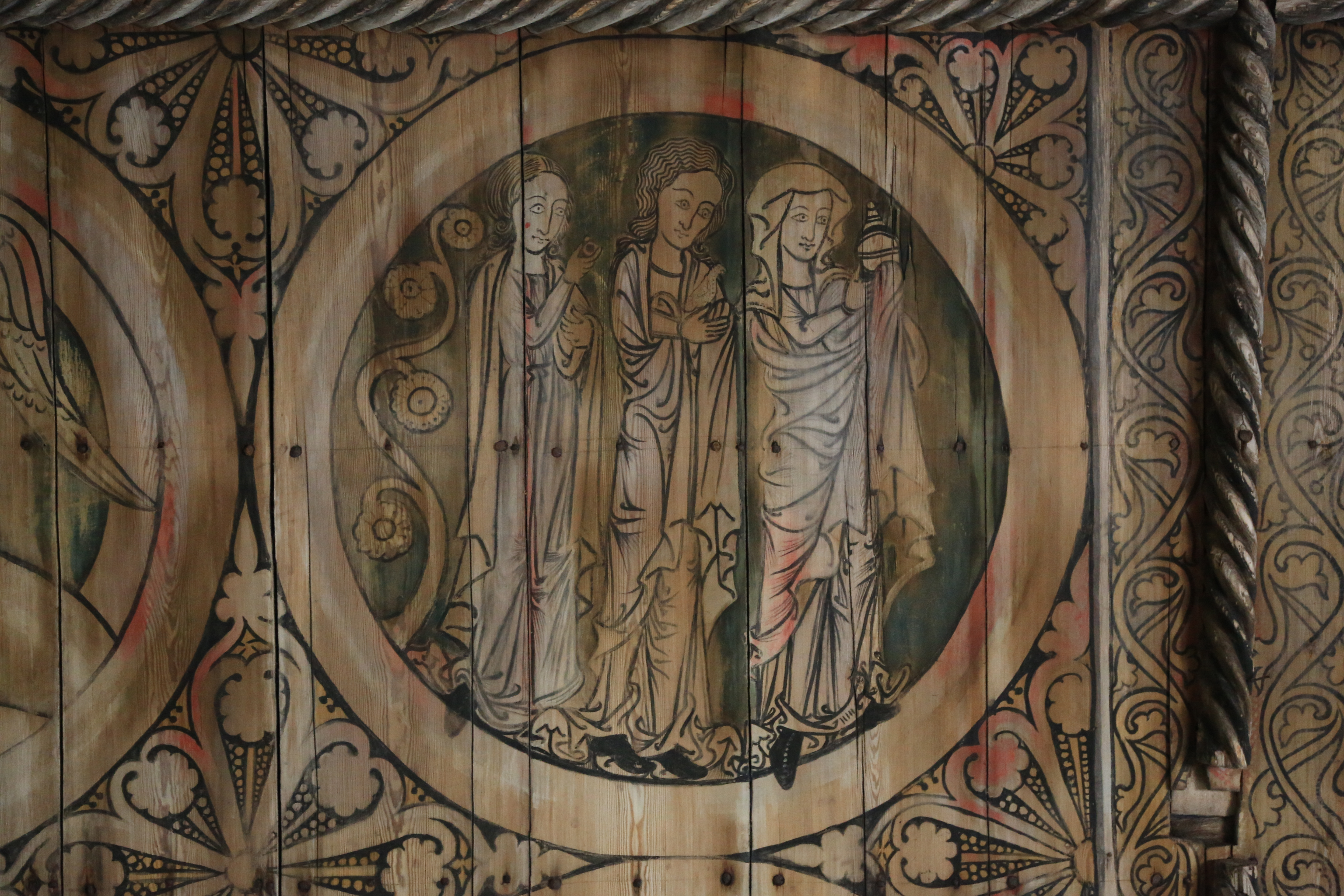 Ceiling of Dädesjö old church